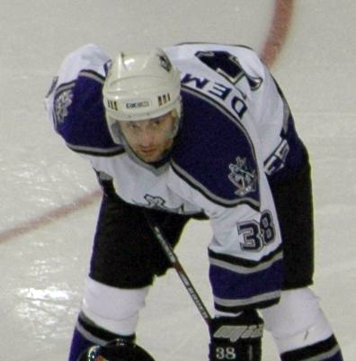 Pavol Demitra of the Los Angeles Kings, December 21, 2005